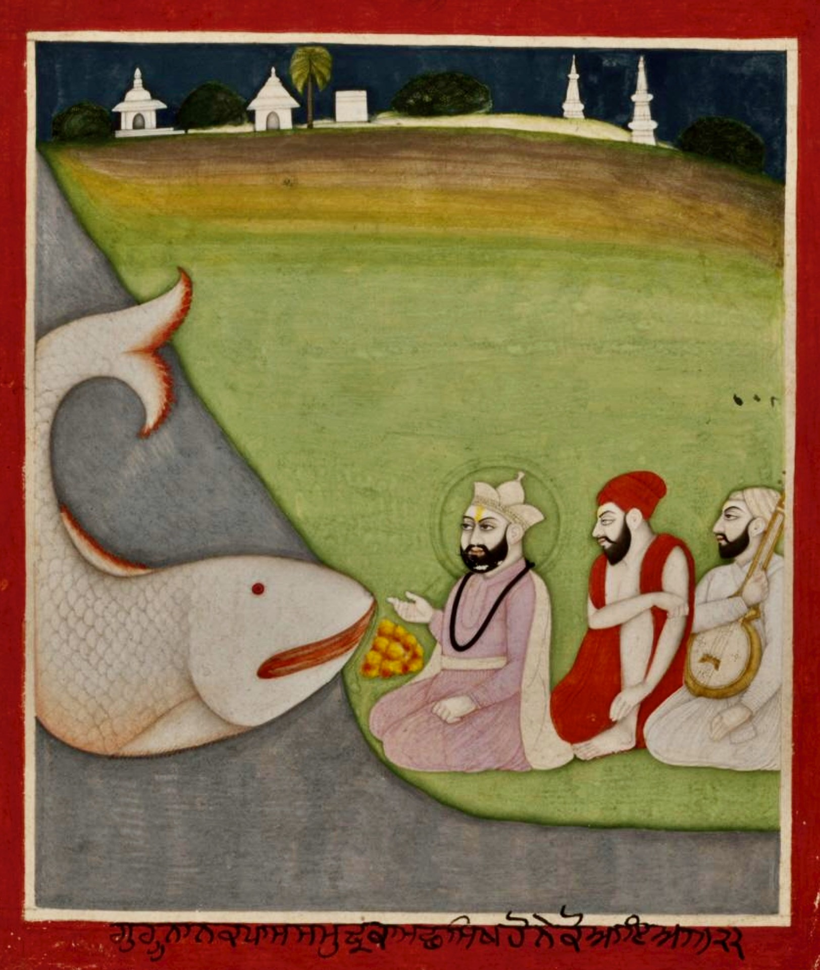 Asian Art Museum, San Francisco has a collection of manuscript folios of the popular Sikh literature called Janam Sakhi (lit. Life Stories). These date between 1800–1900, acquired in Punjab (India or Pakistan). A part of these manuscripts are in the Kapany collection. A Janam-sakhi is a miracle-filled, mythical hagiography. The earliest versions were written about 50 to 80 years after Guru Nanak's death. With time, these legends expanded and became more elaborate and depict the founder of Sikhism to possess miraculous powers. He travels extensively in these legends and the miracles are set in different locations in South Asia and the Middle East. He also meets ancient mythical figures of other Indian religions as well as Islam. The images illustrate the storyline. They also contain cultural, dress, ritual body art and social information about Sikh society, artists, writers and trends in 18th and 19th century Punjab region (India and Pakistan). Guru Nanak is always shown with a halo and is typically a larger presence than other characters. If another character in the painting is also considered sacred, they also have a halo. The character with a lute is Bhai Mardana, reflecting the hymn singing tradition. This painting shows Guru Nanak in a conversation with a mythical fish. For a discussion of these Janamsakhi illustrations: Seeing-in Guru Nanak at the Asian Arts Museum This is a photograph of a two-dimensional watercolors painting on paper. It was published before 1900 CE. Therefore it qualifies for 2D-Art licensing guidelines of wikimedia commons. Any rights I have as a photographer, I donate it to wikimedia commons under CC4.0.